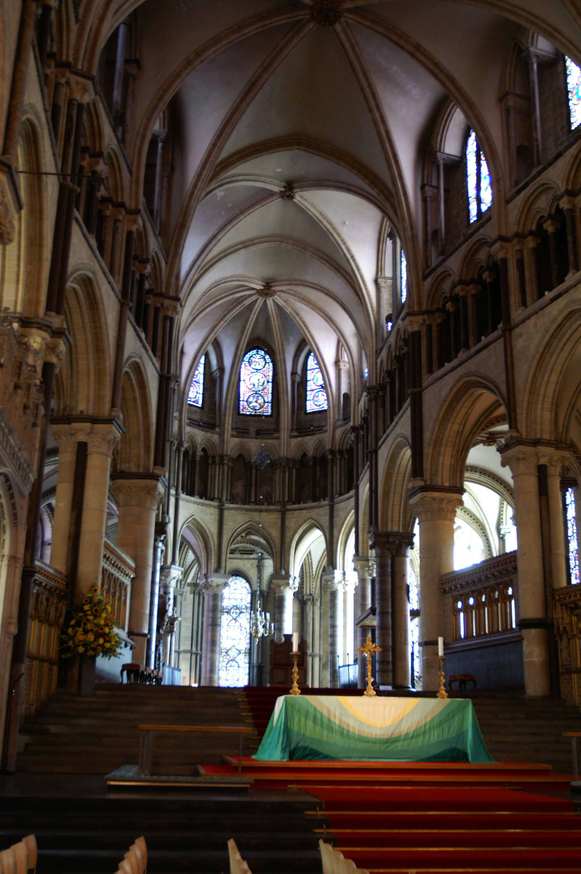 Canterbury Cathedral